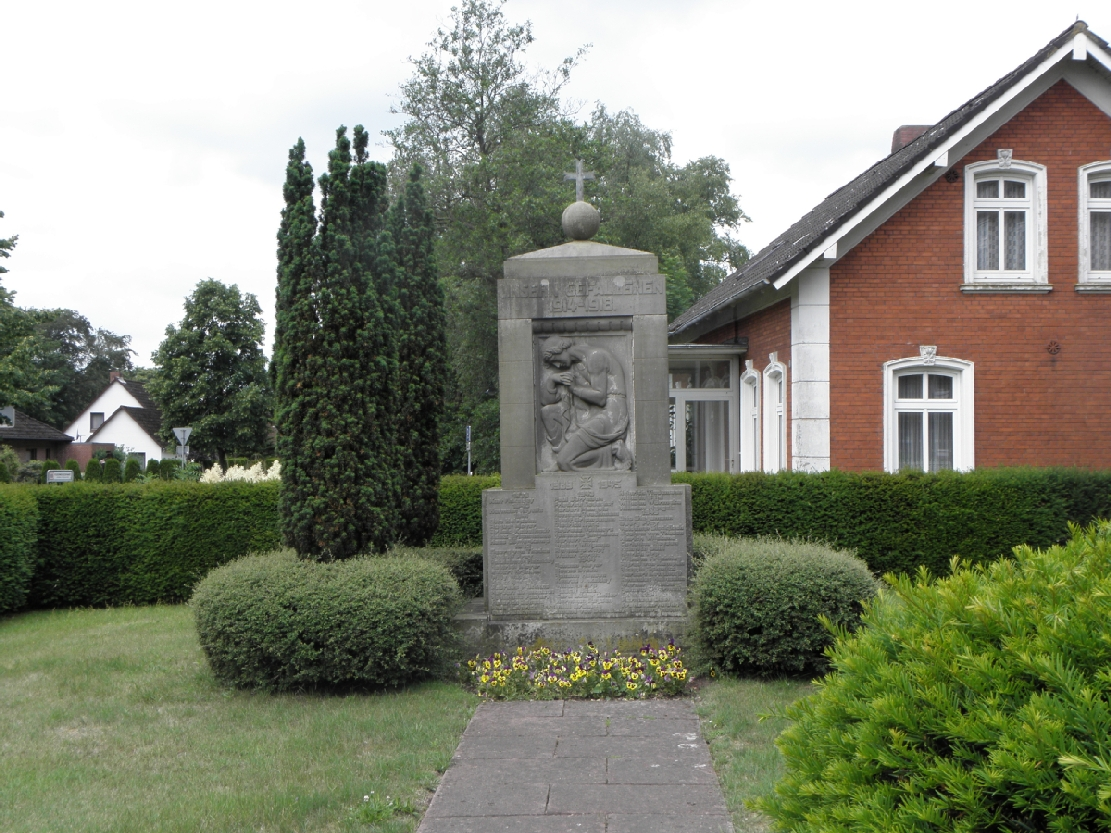 Pictures